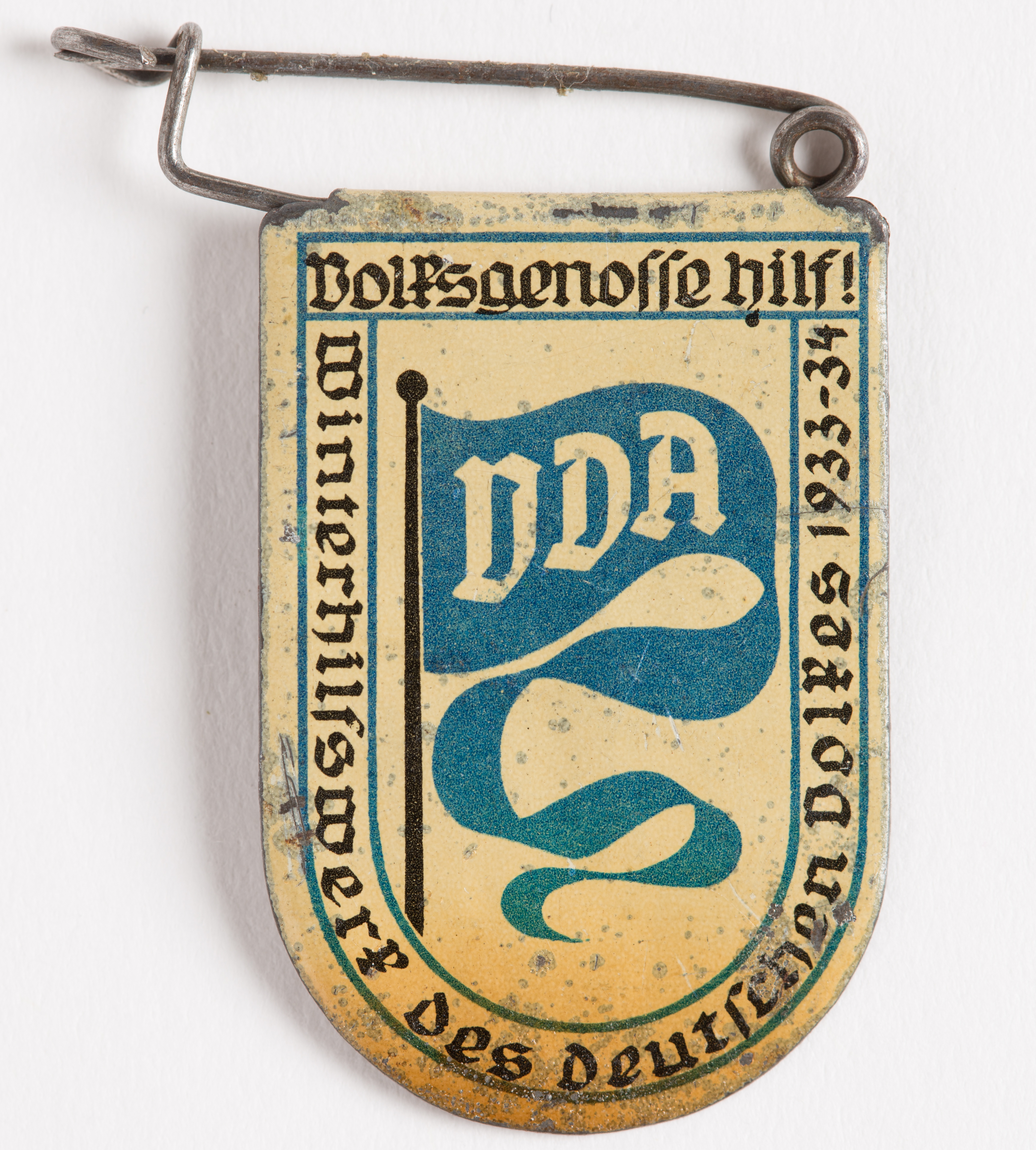 Fundraising badge, Winter Charity badge 1933-34 (VDA Winterhilfswerk des Deutschen Volkes. Volksgenosse hilf!) oval form; flag at centre (blue); legend around edge; "VDA" on flag; pin fastening badge flattened